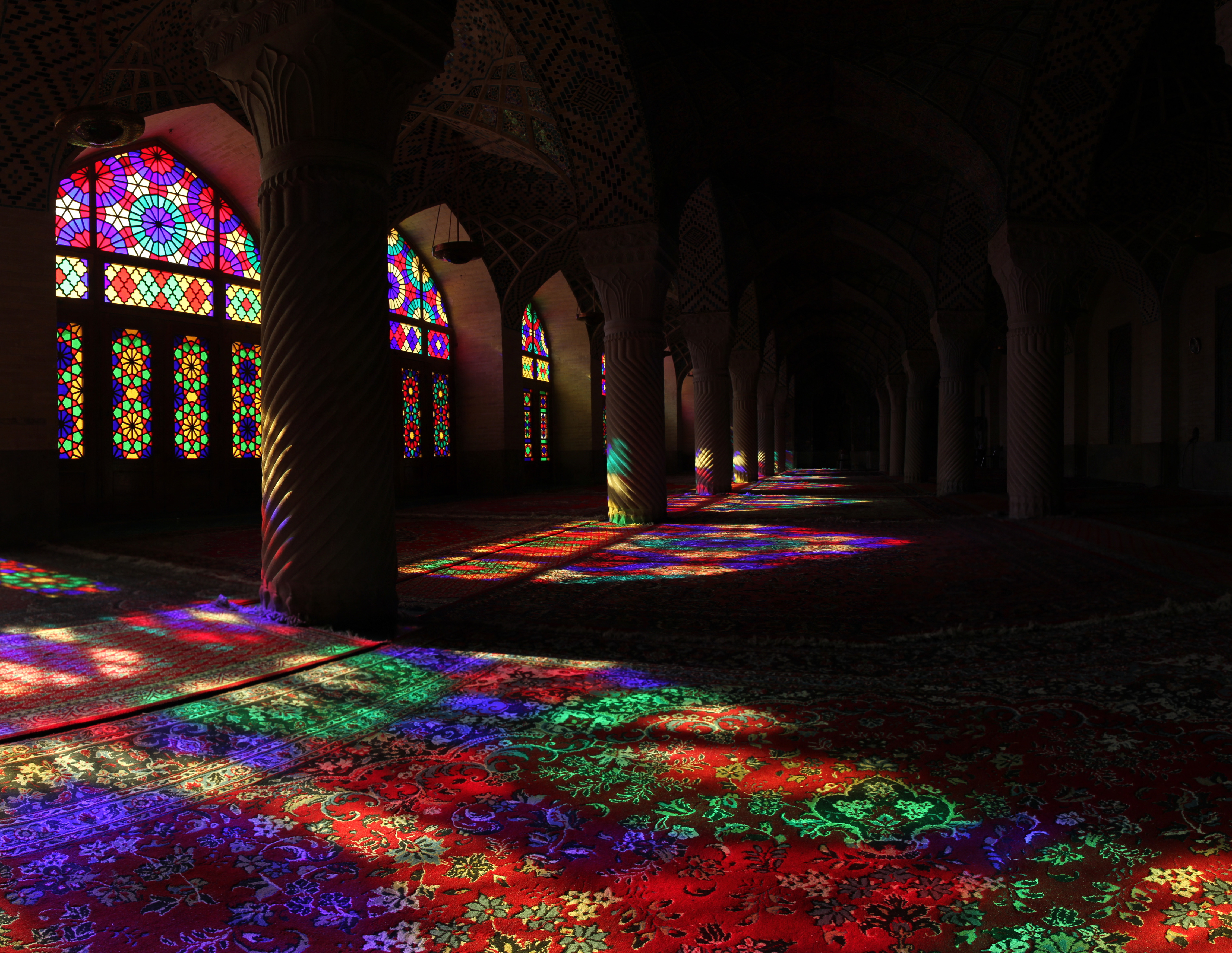 A view of the interior of Nasir ol Molk Mosque located in Shiraz. The mosque includes extensive colored glass in its facade that make beautiful colors when light is passed through them and is reflected on the carpets.